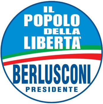 Logo of Il Popolo della Libertà